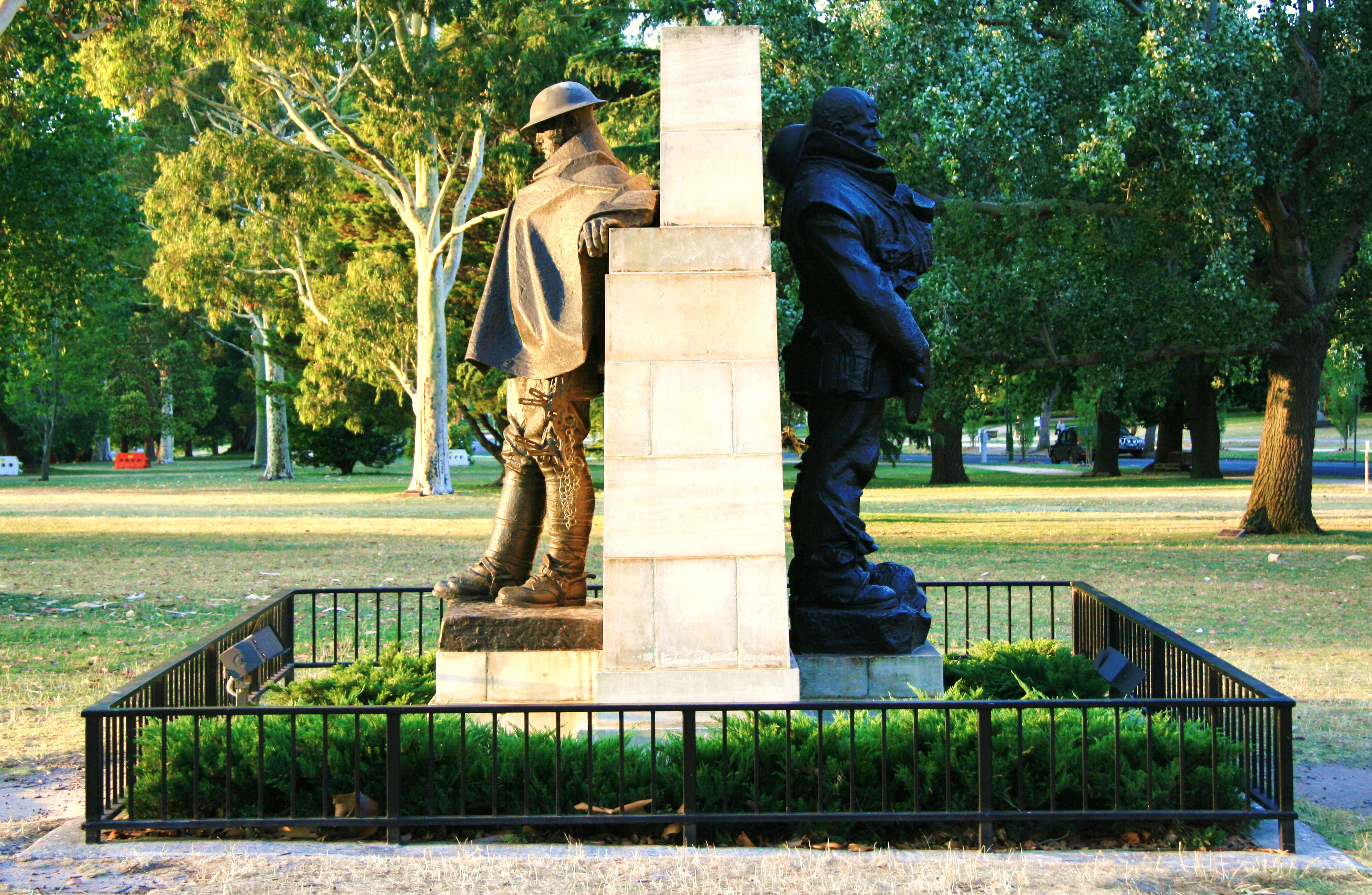 Taken at the Shrine of Remembrance in Melbourne. The statues are recasts of work by Charles Sargeant Jagger.